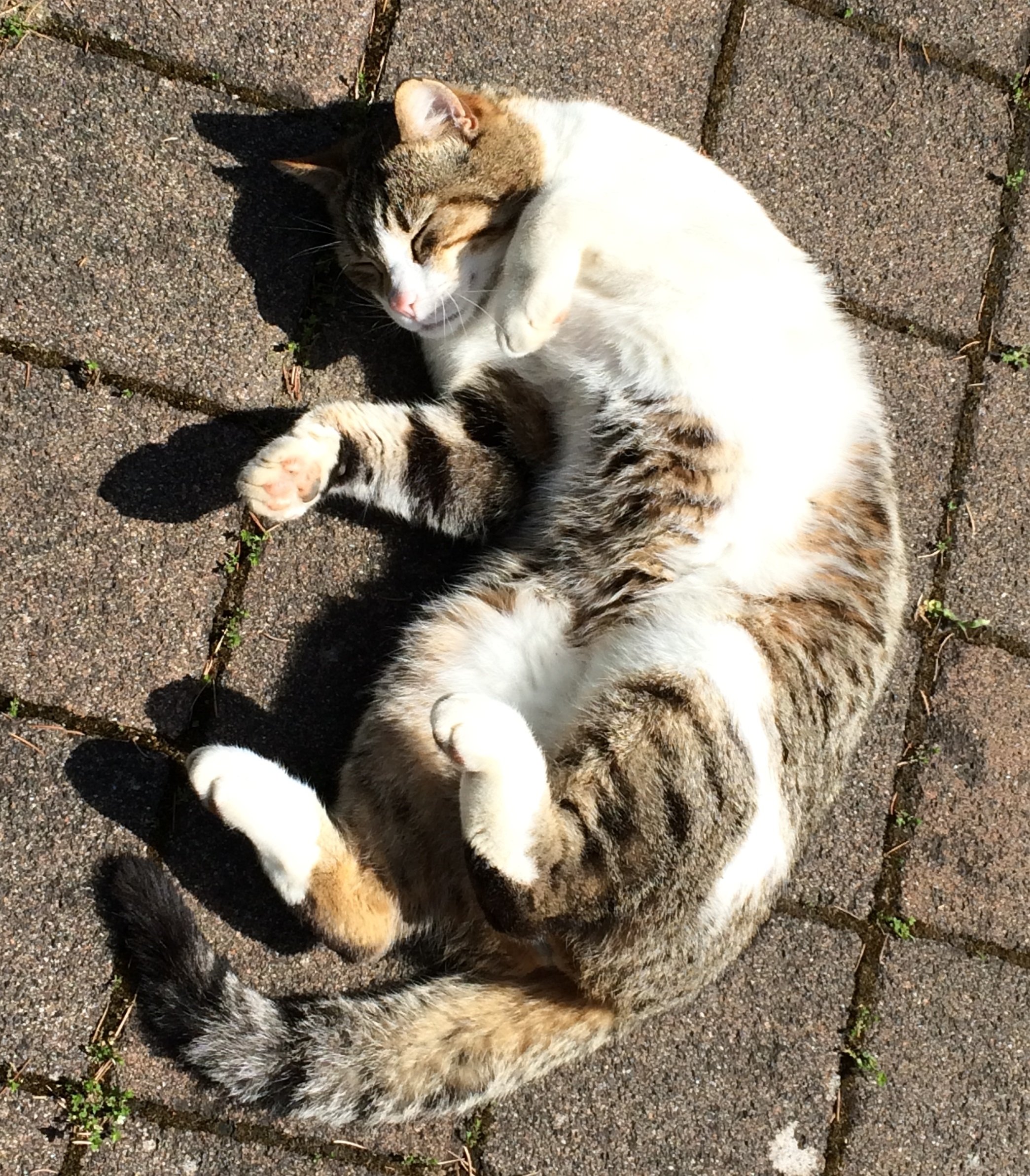 European male cat